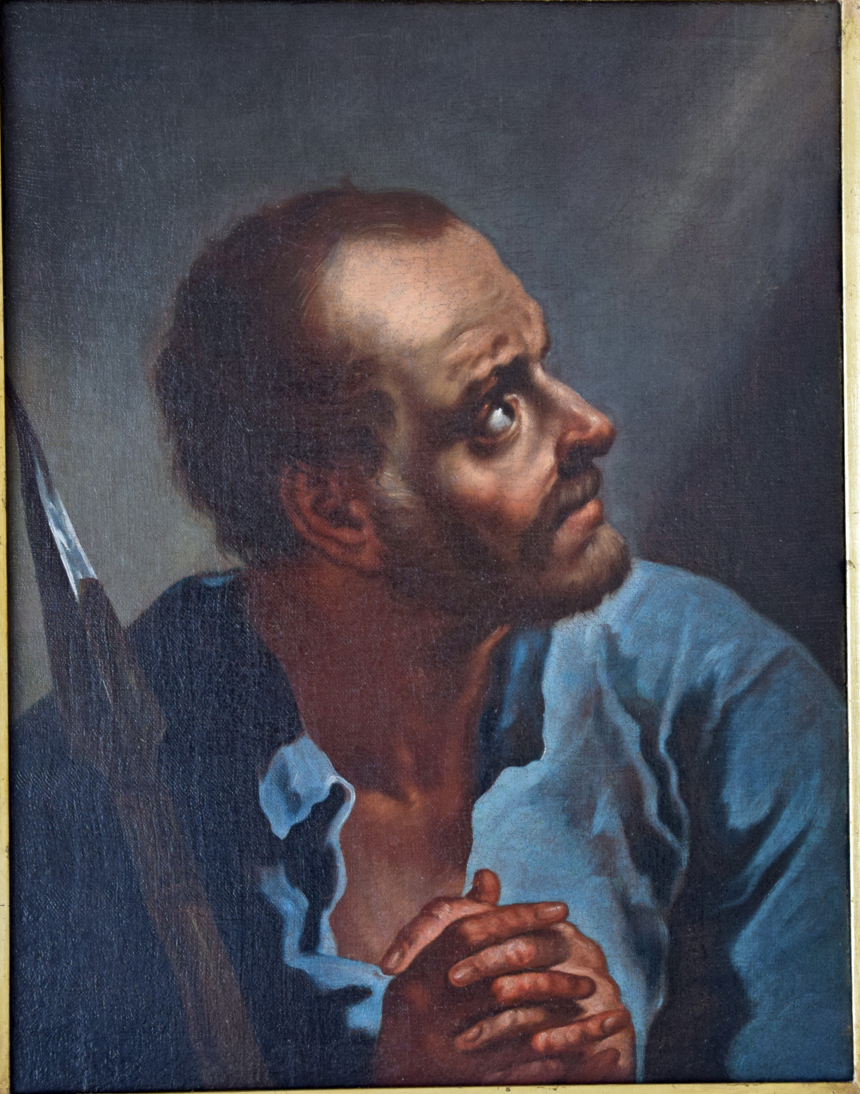 Giovanni Battista Piazzetta (also called Giambattista Piazzetta or Giambattista Valentino Piazzetta) (February 13, 1682 or 1683 – April 28, 1754), St. Thomas, oil on canvas, 44 x 59 cm, private collection. References for this description (or part of this) or for the depiction in the file are not provided.